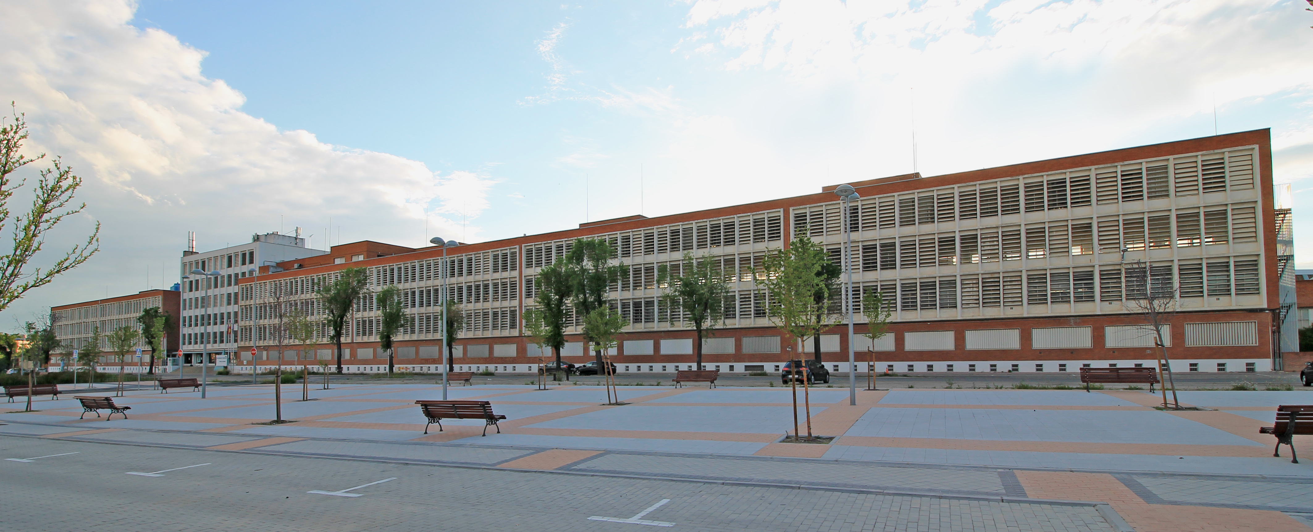 Former head offices of Barreiros Diesel. Nowadays, facilities of the PSA factory in Madrid (Spain).